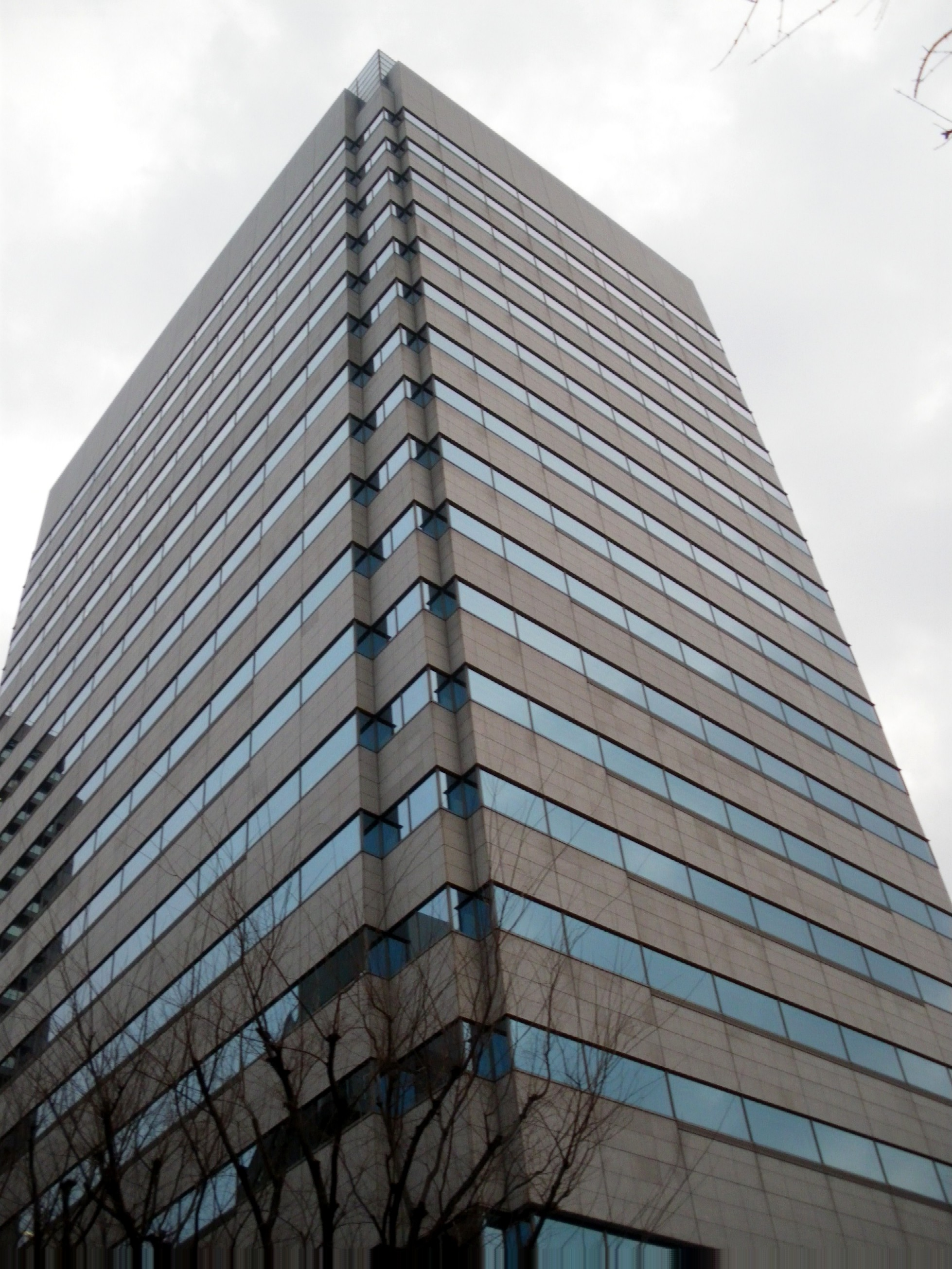 A photo of Marui (a Japanese retail company which operates a chain of department stores in Tokyo). head office building,Nakano,Nakano-ku,Tokyo,Japan.